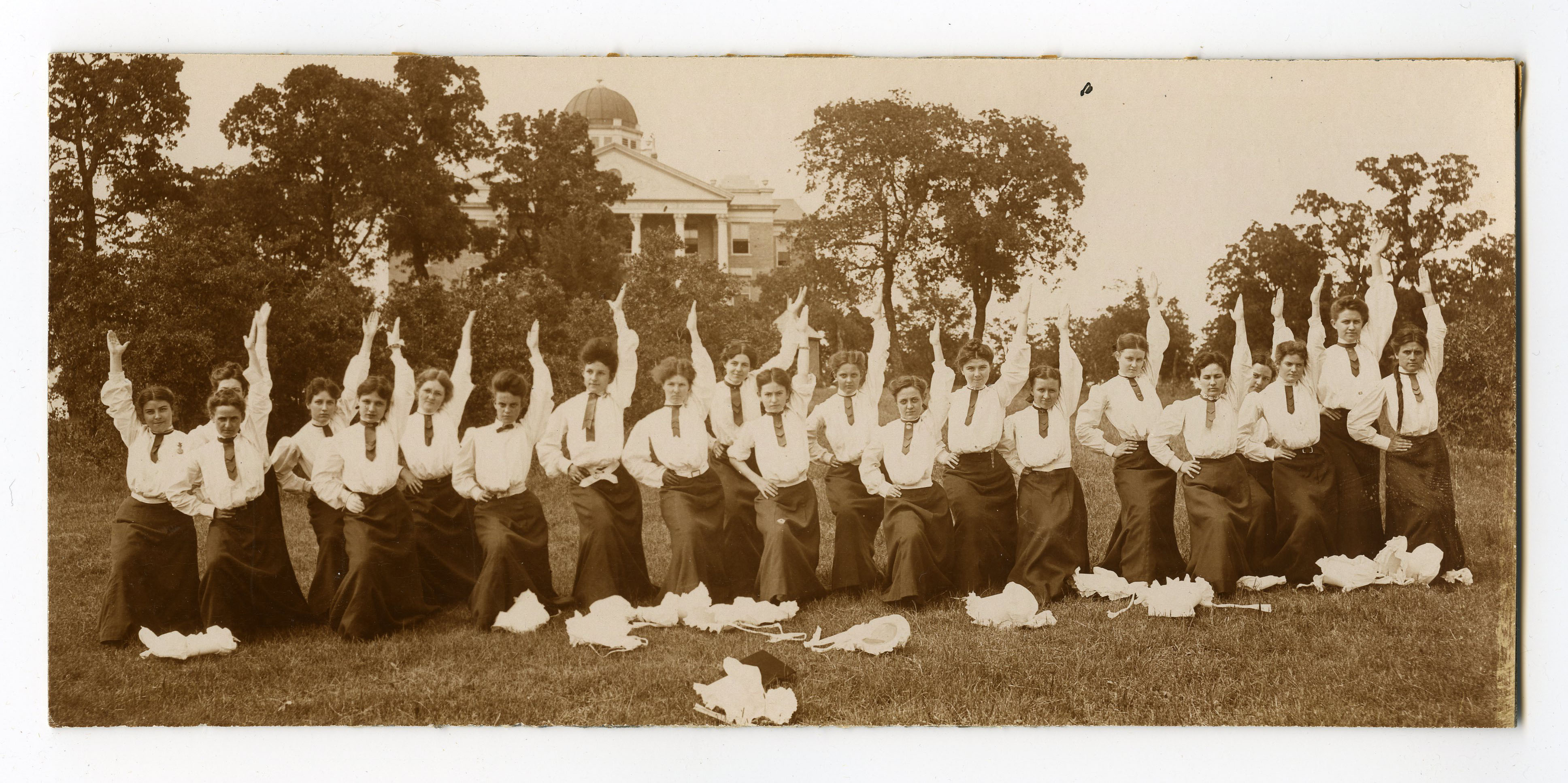 Physical culture class on campus